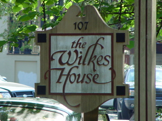 I took this photo April 22, 2004. As you can see, Mrs. Wilkes' Dining Room is located at 107 W. Jones Street.